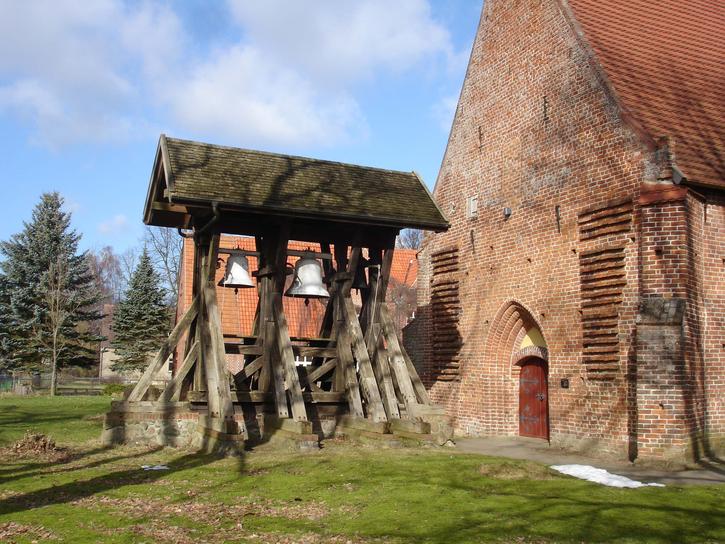 Church in Alt Meteln, district Nordwestmecklenburg, Mecklenburg-Vorpommern, Germany